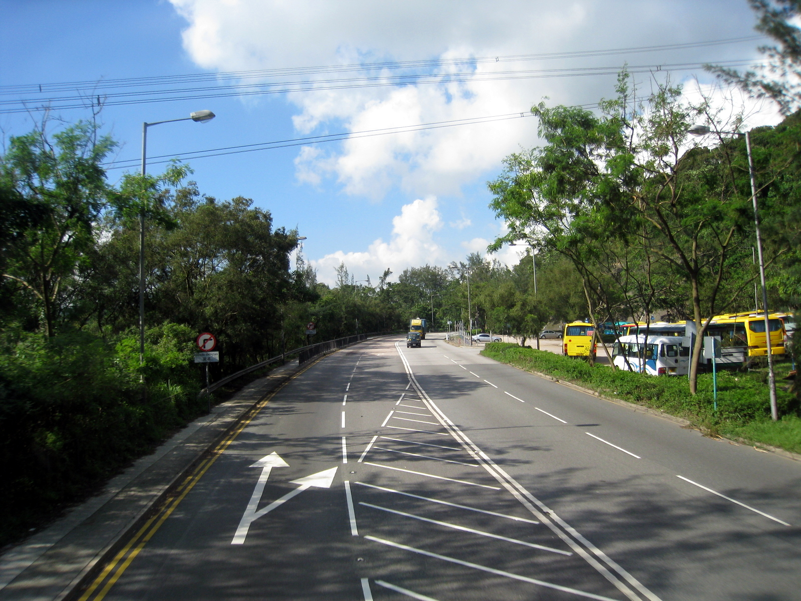 HK Tai Po Road Pipers Hill Section (大埔公路琵琶山段)